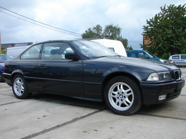 BMW E36